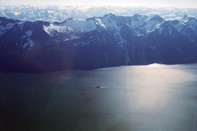 Kakuhan Range within the Boundary Ranges of the Coast Mountains, Alaska Panhandle, USA from airplane between Haines and Juneau with a cruise ship heading north (toward the left)